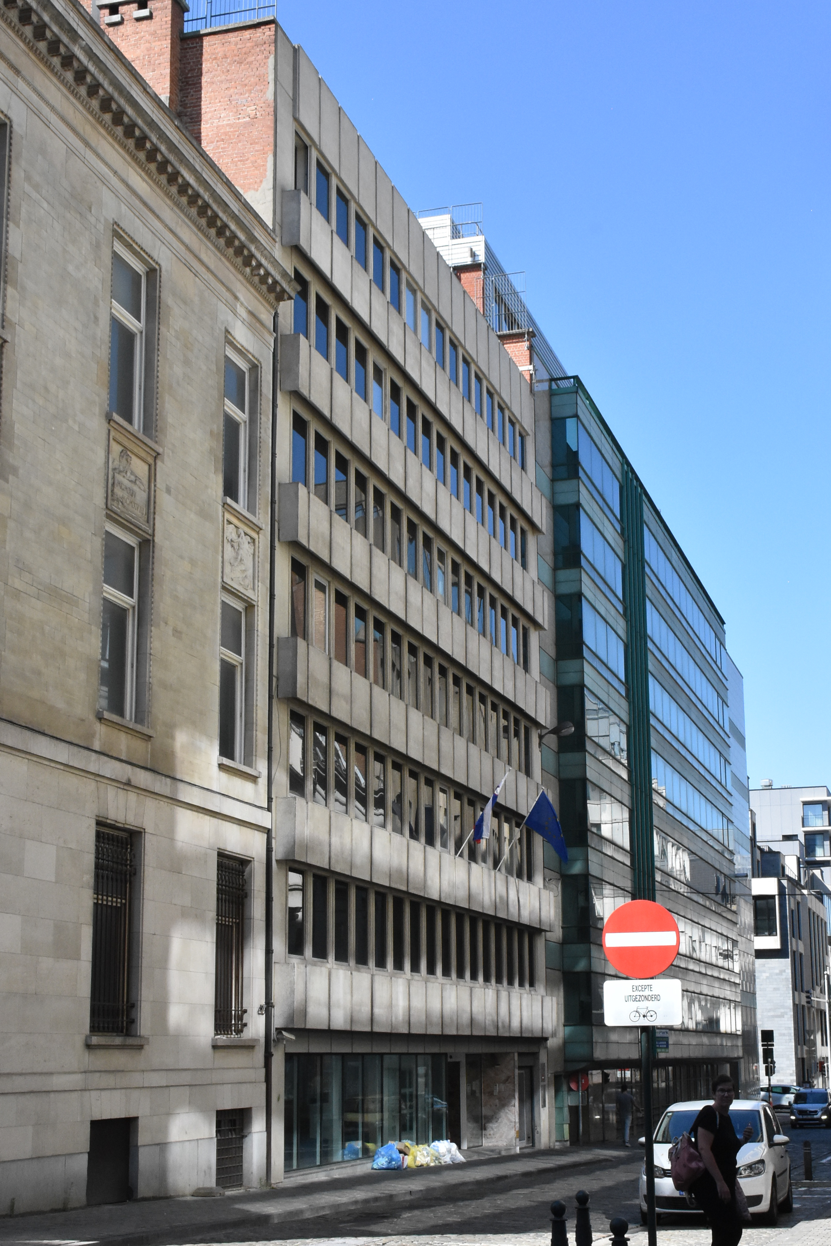 Embassy of Slovenia in Brussels BelgiumSlovenščina: Veleposlaništvo Republike Slovenije v Bruslju Bruselj Belgija